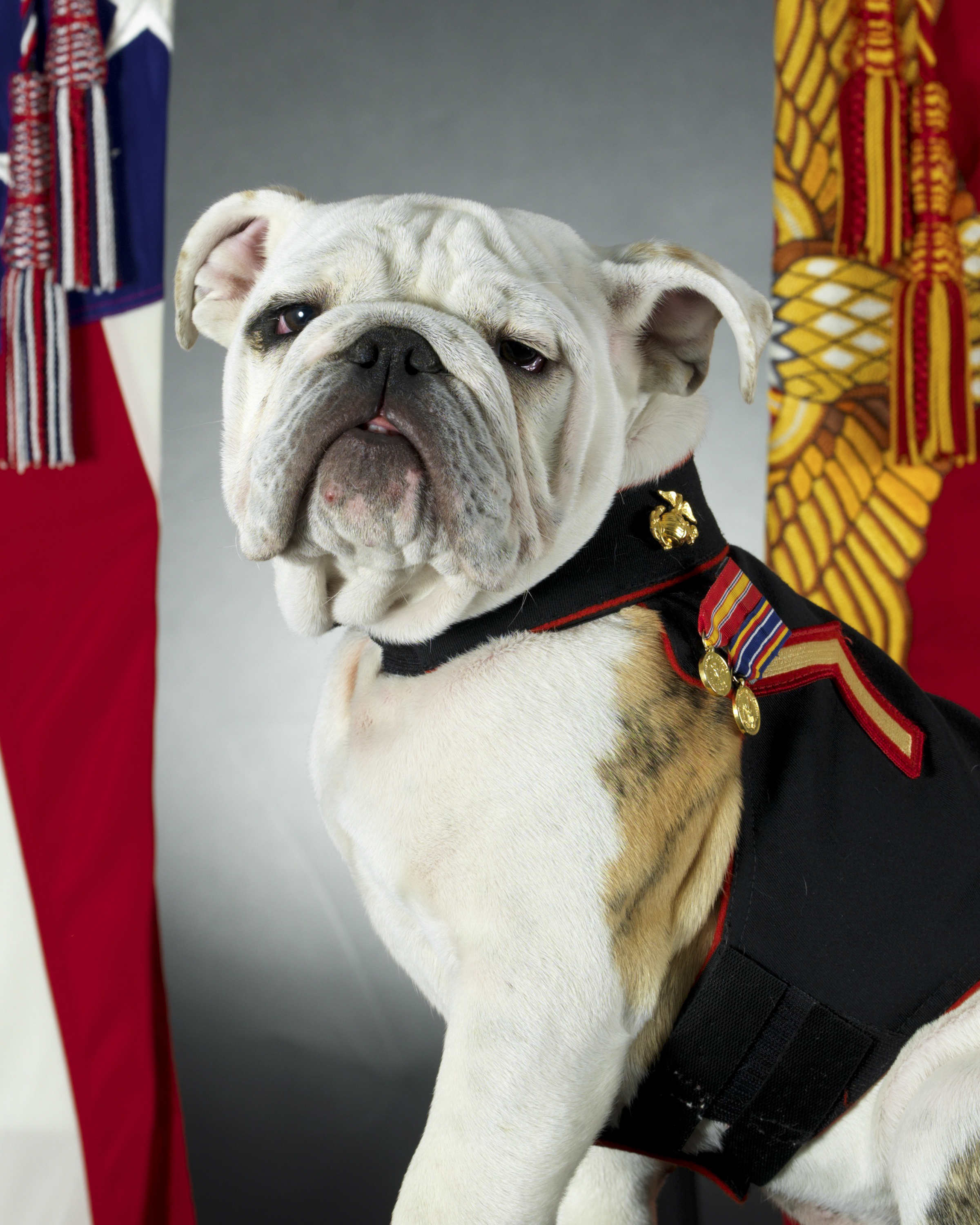 The official mascot of the United States Marine Corps, English bulldog Pfc. Chesty the XIV, sits for his official photo at Headquarters Marine Corps Combat Camera in the Pentagon, Arlington, Va, May 15, 2013 at Headquarters Marine Corps Combat Camera, Pentagon, Washington, D.C. Chesty the XIV will officially take over as the mascot when his predecessor, Sgt. Chesty the XIII, retires in the fall of 2013.